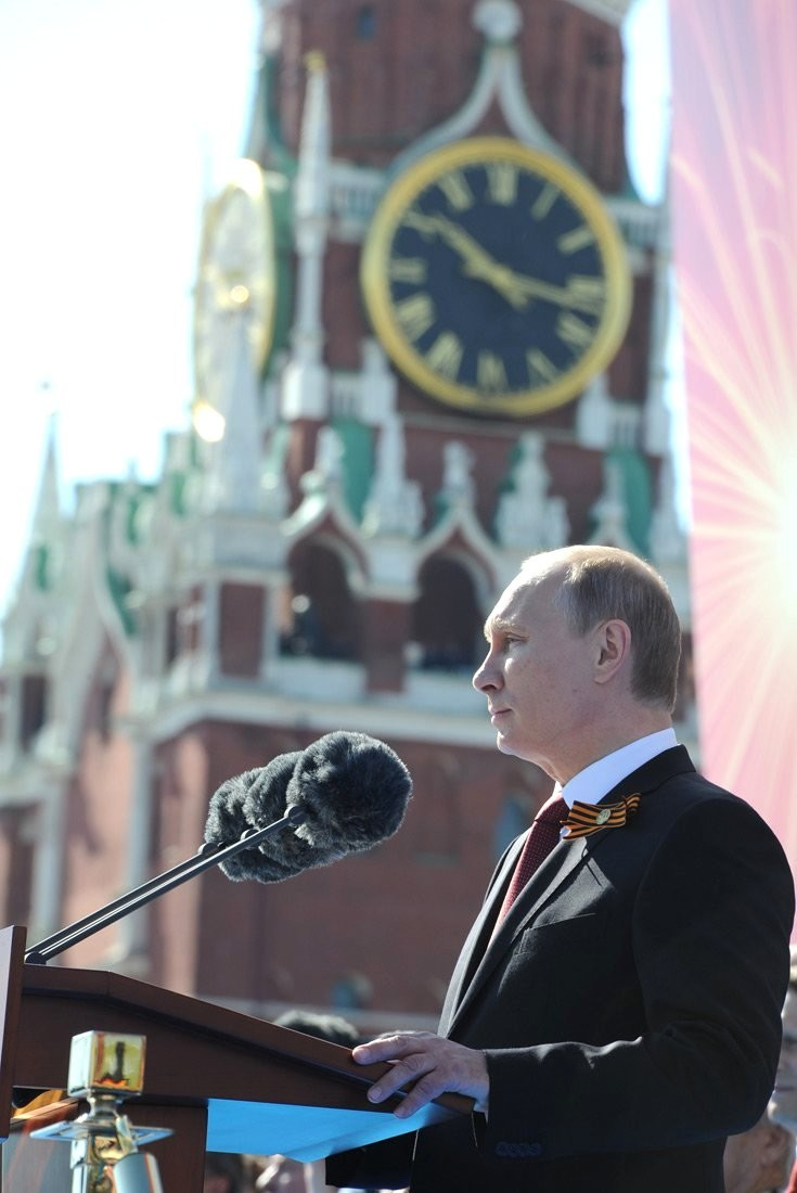 Parade of Victory in the Great Patriotic War.